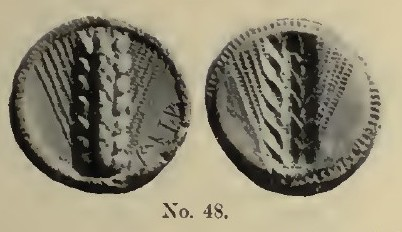 Greek coins and their parent cities (1902) Author: Ward, John, 1832-1912; Hill, George Francis, Sir, 1867-1948 Subject: Coins, Greek; Numismatics, Greek; Greece -- Description, geography; Italy -- Description and travel; Turkey -- Description and travel Publisher: London : Murray Possible copyright status: NOT_IN_COPYRIGHT Language: English Call number: AKB-0671 Digitizing sponsor: MSN Book contributor: Robarts - University of Toronto Collection: toronto Scanfactors: 7